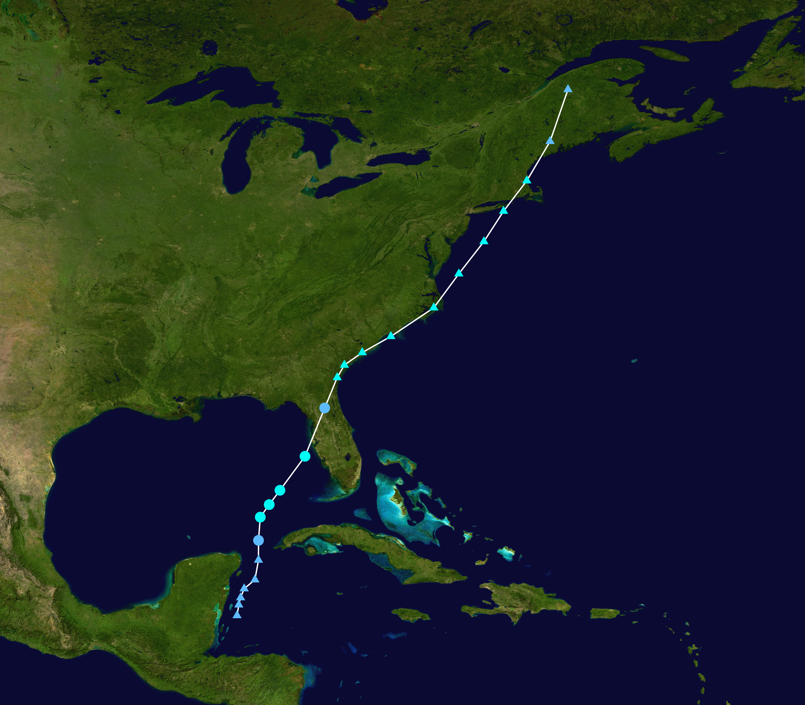 Track map of Tropical Storm Barry of the 2007 Atlantic hurricane season. The points show the location of the storm at 6-hour intervals. The colour represents the storm's maximum sustained wind speeds as classified in the Saffir–Simpson scale (see below), and the shape of the data points represent the nature of the storm, according to the legend below. Saffir–Simpson scale Tropical depression≤38 mph≤62 km/h Category 3111–129 mph178–208 km/h Tropical storm39–73 mph63–118 km/h Category 4130–156 mph209–251 km/h Category 174–95 mph119–153 km/h Category 5≥157 mph≥252 km/h Category 296–110 mph154–177 km/h Unknown Storm type Tropical cyclone Subtropical cyclone Extratropical cyclone / Remnant low / Tropical disturbance / Monsoon depression